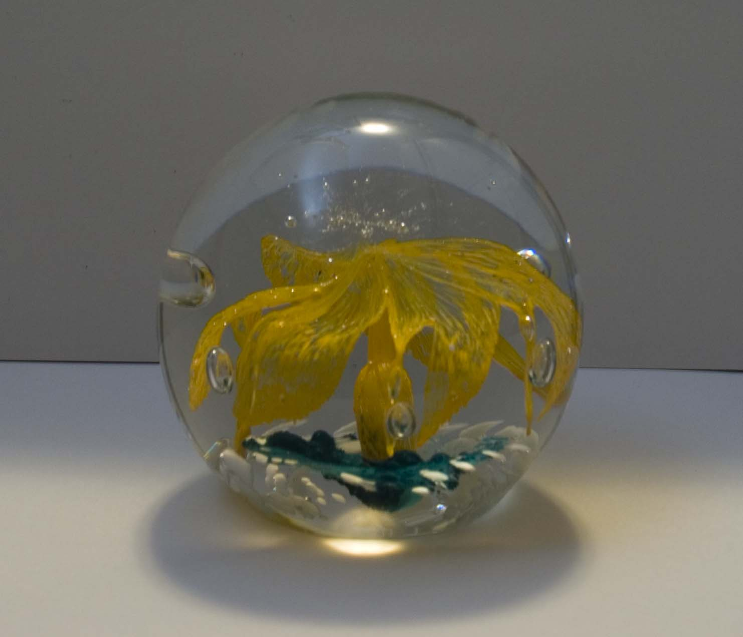 A decorative glass paperweight